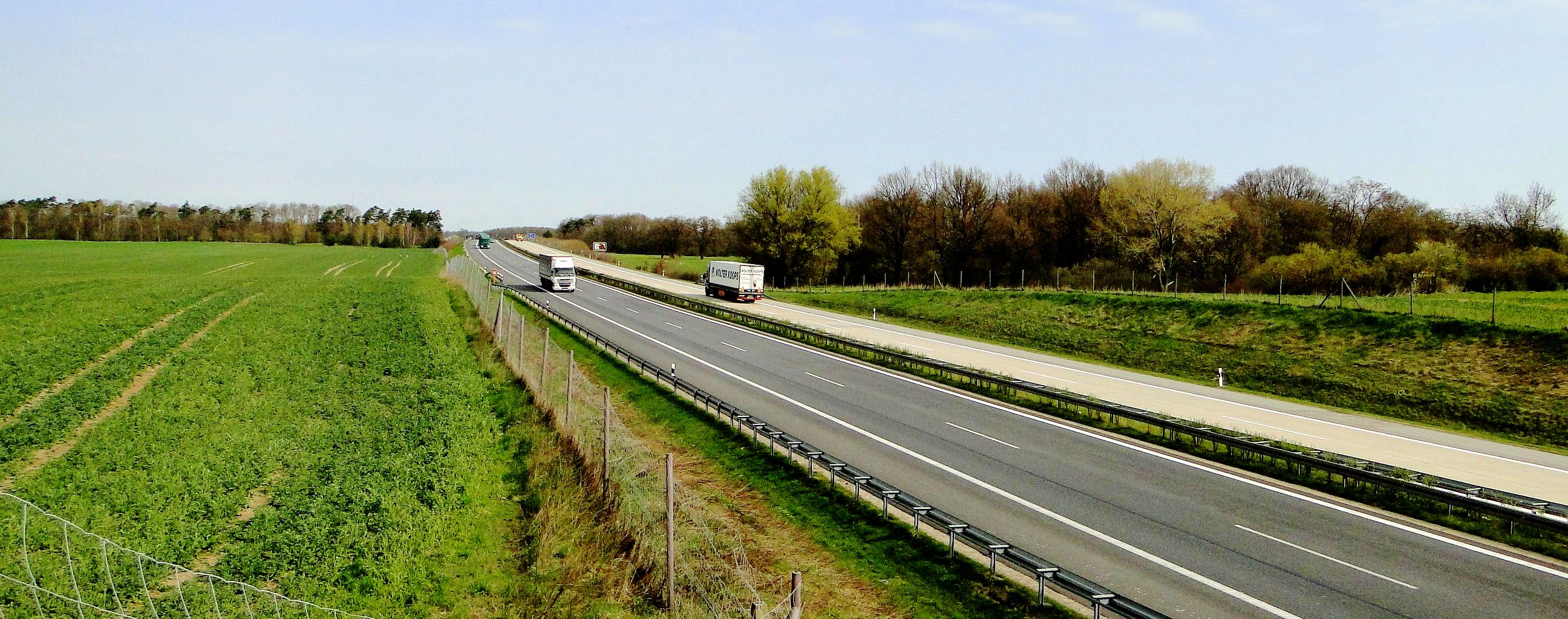 Highway A 19 in Bütow, disctrict Müritz, Mecklenburg-Vorpommern, Germany